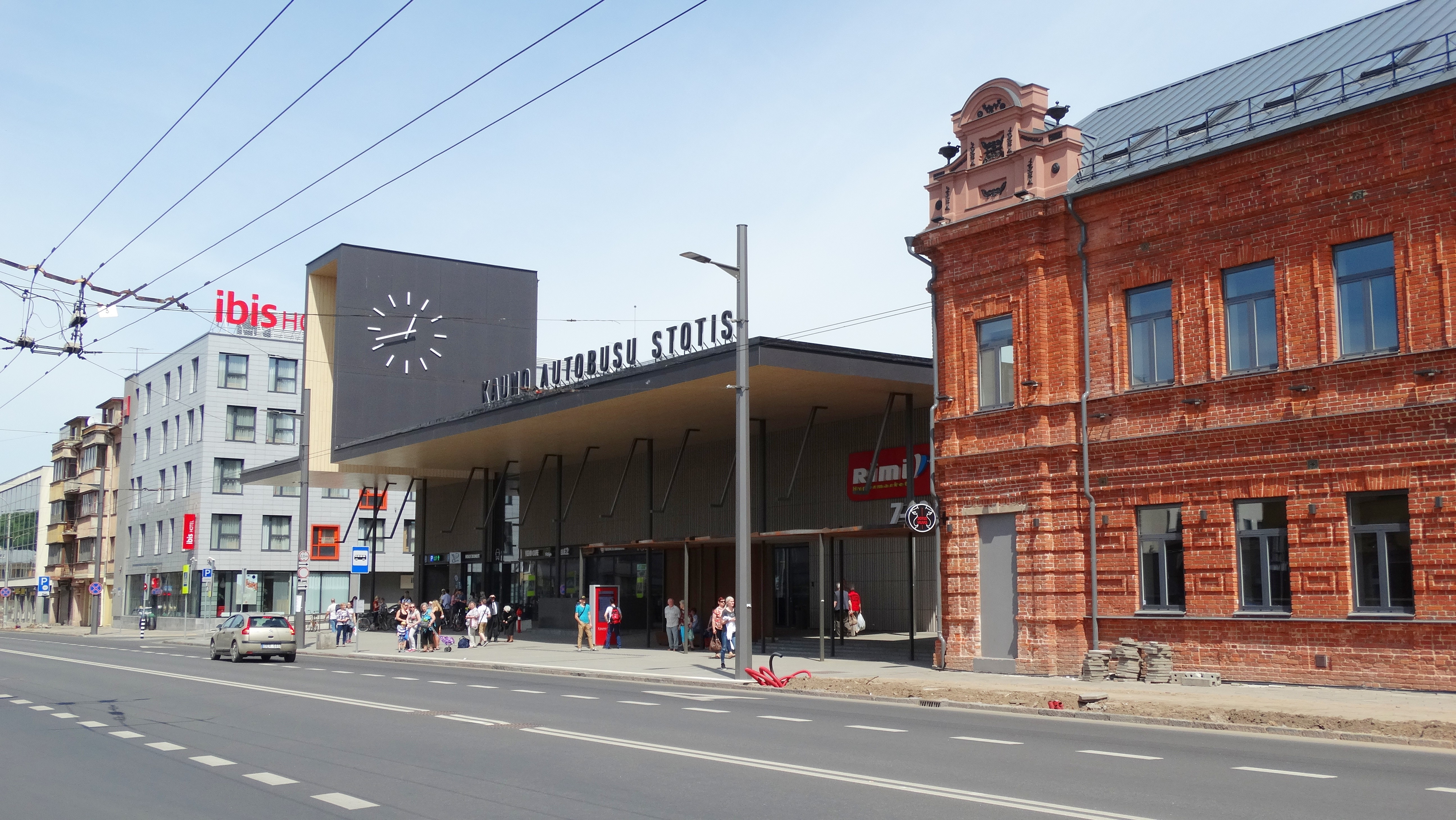 Bus station, Kaunas, Lithuania